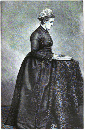 Hannah Whitall Smith